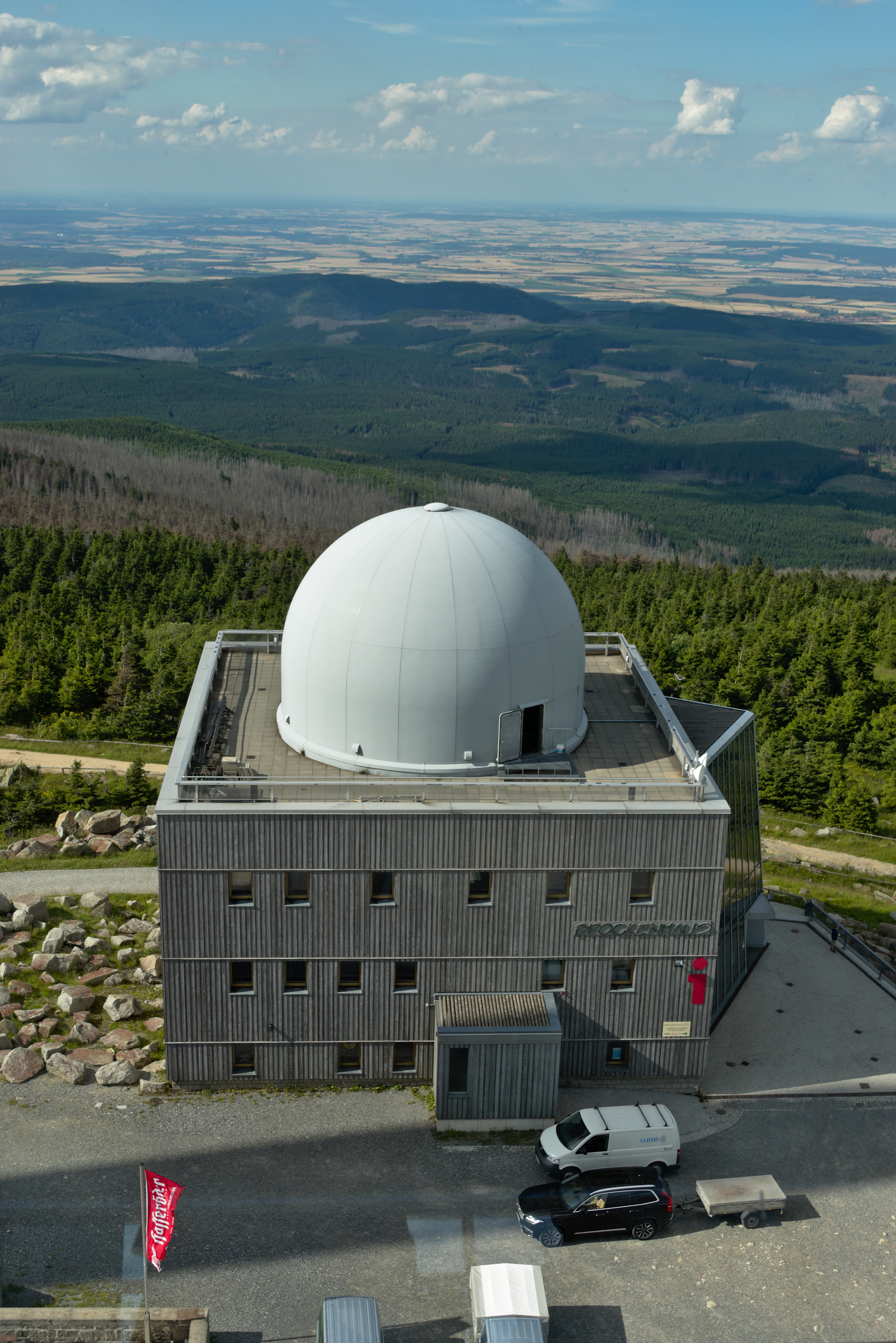 The Brockenhaus, a repurposed former East German signals intelligence facility on the summit of the Brocken. It now houses a museum and a tourist information centre, and it is here seen from the observation platform of the Brocken hotel.